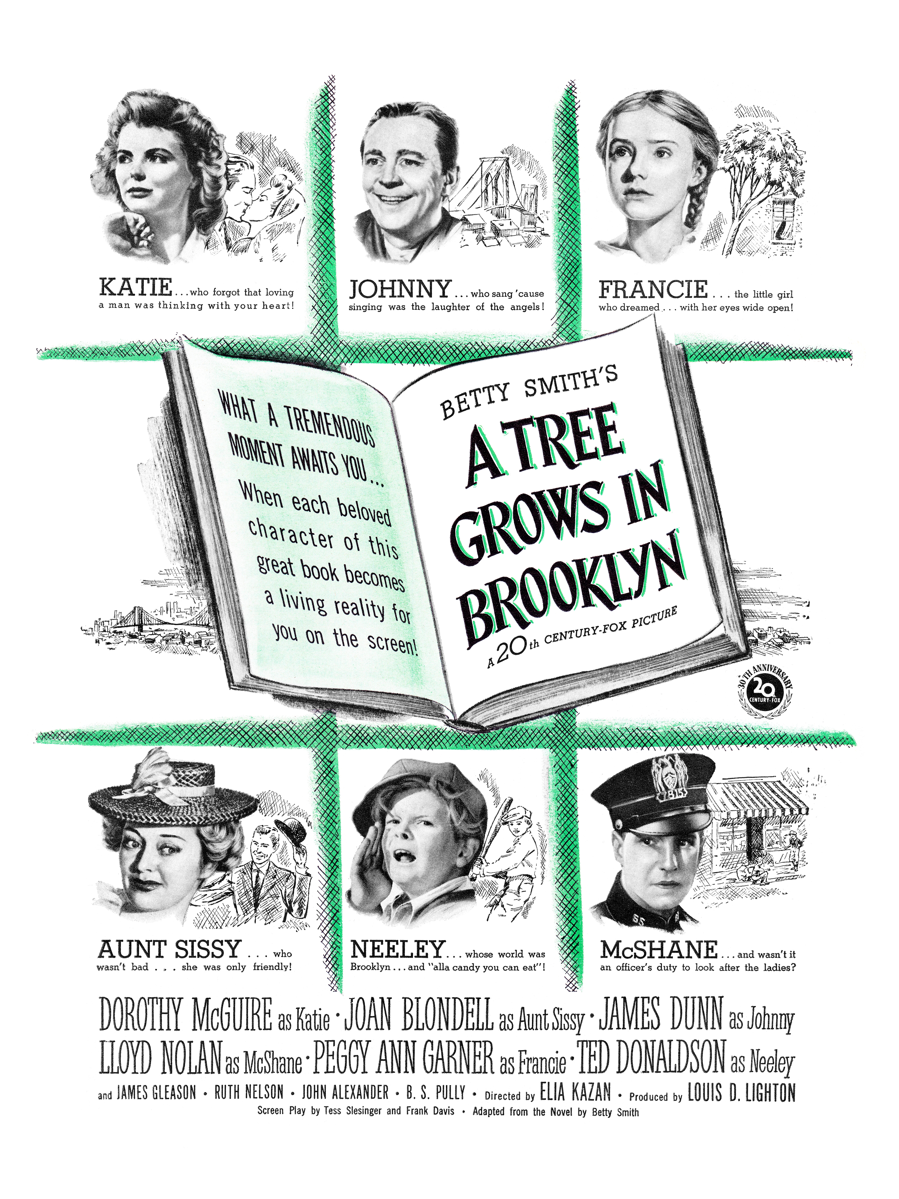 Advertisement for the 1945 film A Tree Grows in Brooklyn